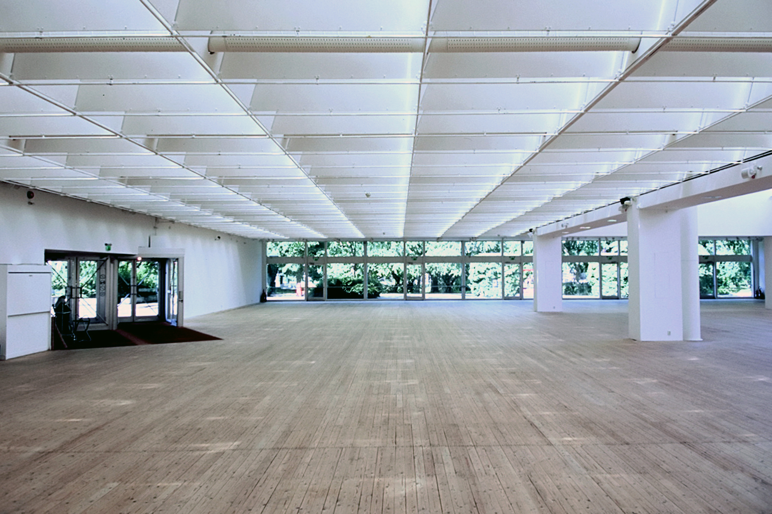 Interiour view of Malmö Konsthall, entrance to the left.